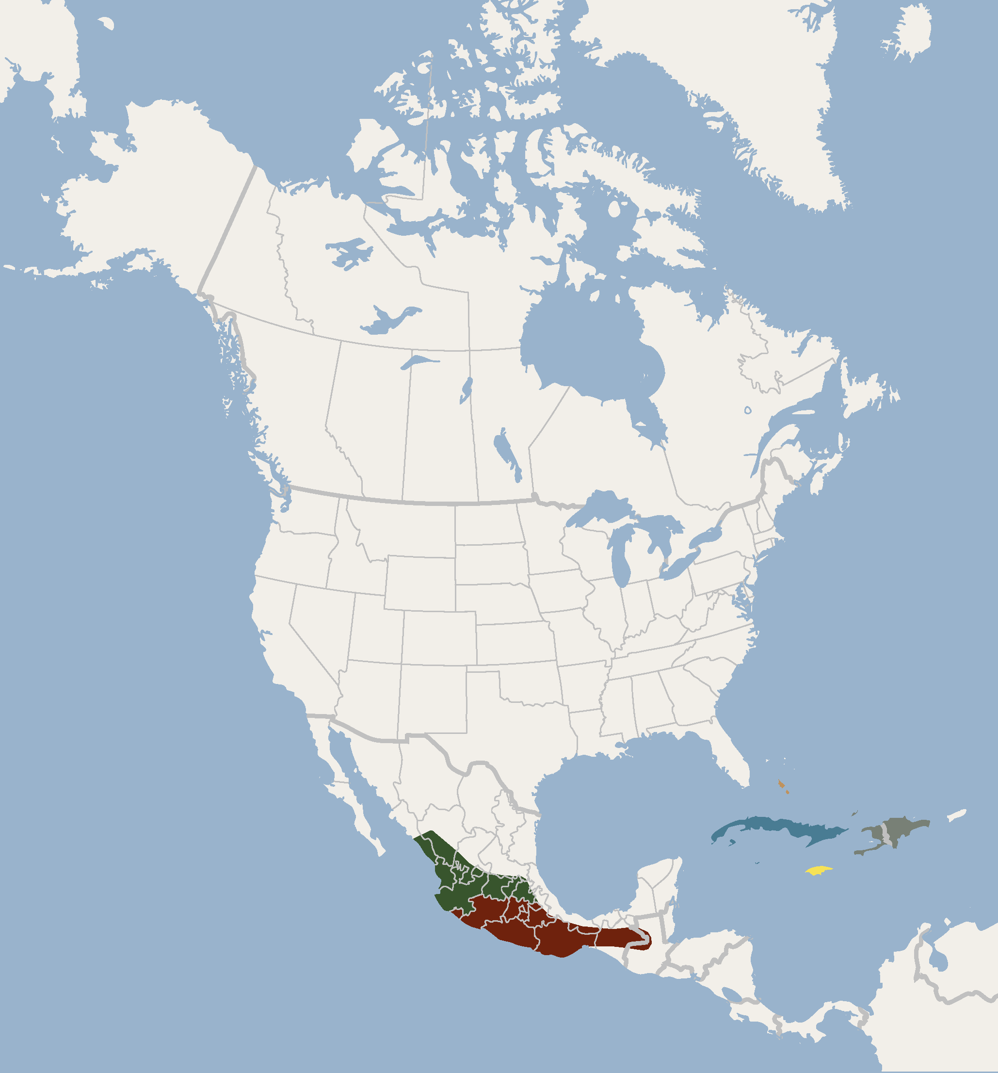 Geographical distribution of Macrotus waterhousii according to Anderson, 1969 M.w.waterhousii M.w.bulleri M.w.compressus M.w.jamaicensis M.w.mexicanus M.w.minor